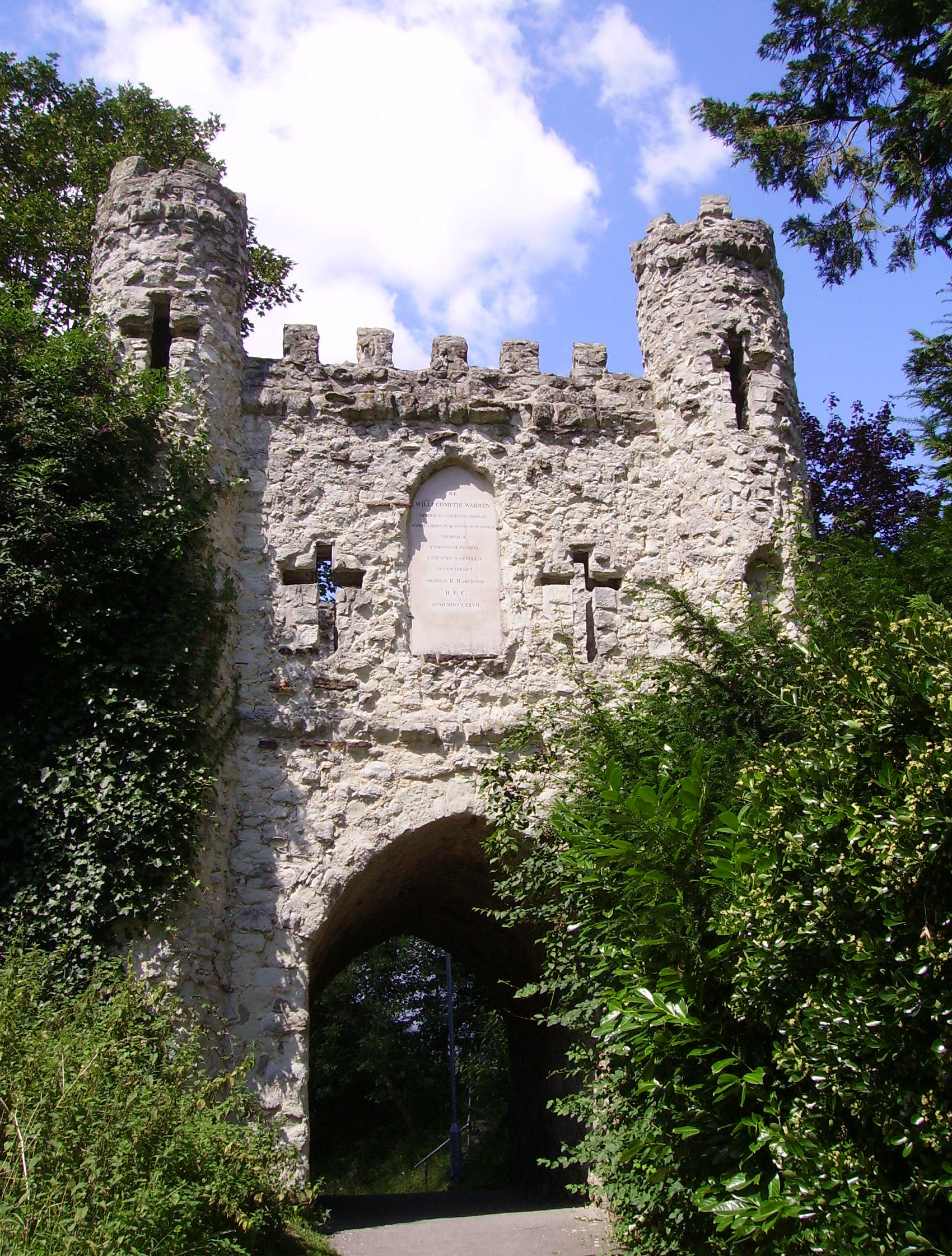 view of Reigate, United Kingdom